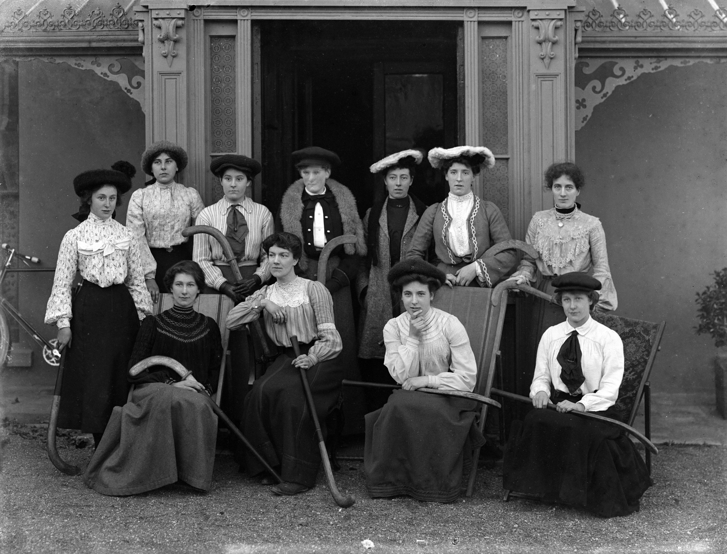 Presenting a lovely group of hockey players, who may have been photographed in Tramore, Co. Waterford. Personal favourite is the woman leaning forward in the front row... Date: Thursday, 24 March 1904 NLI Ref.: P_WP_1323